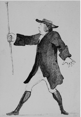 Drawing of John Liston as Dominie Sampson by Robert Scott Moncrieff